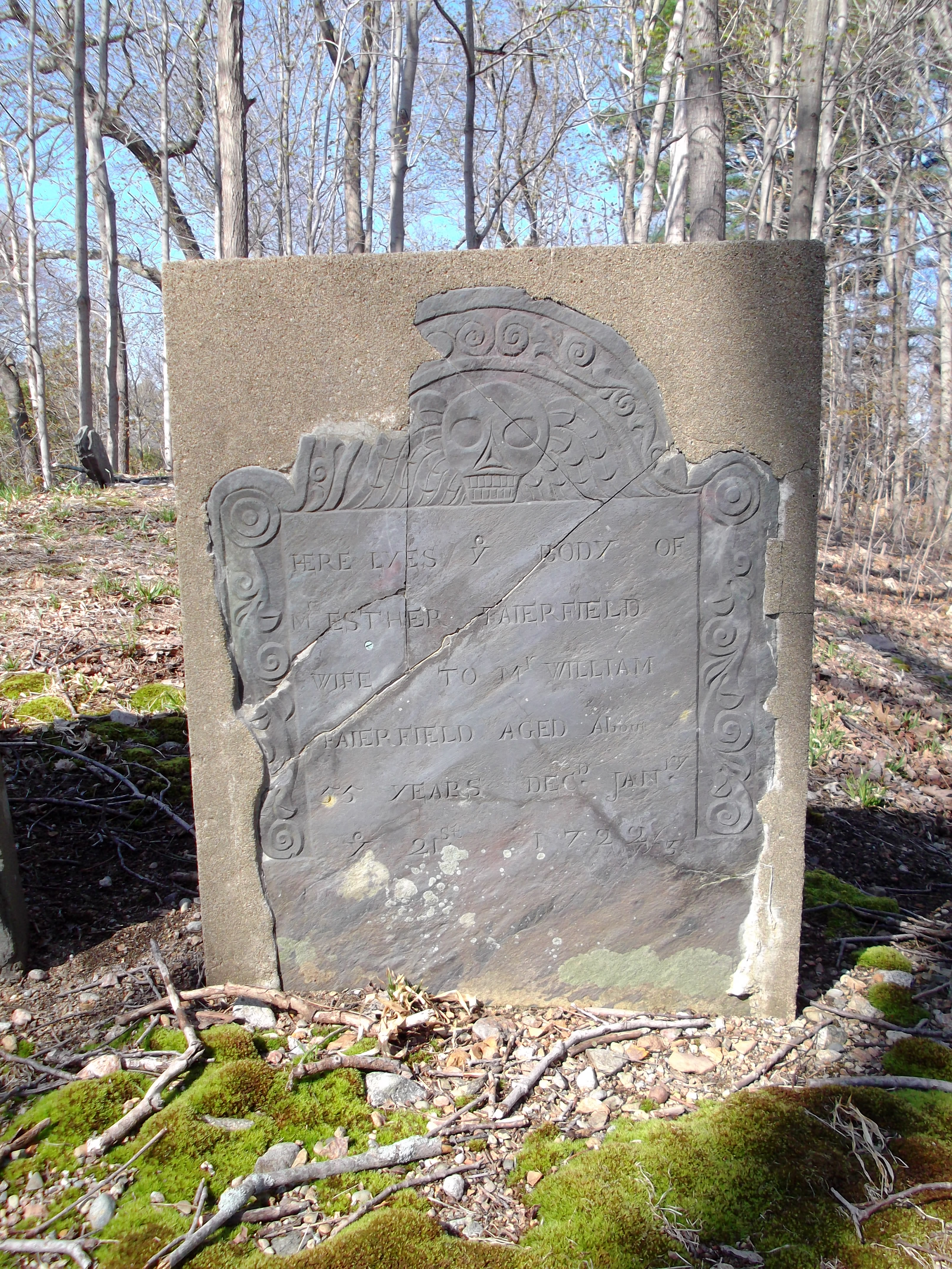 Gravestone of Esther Fairfield, Fairfield Family Burial Ground, William Fairfield Drive, Wenham, MA